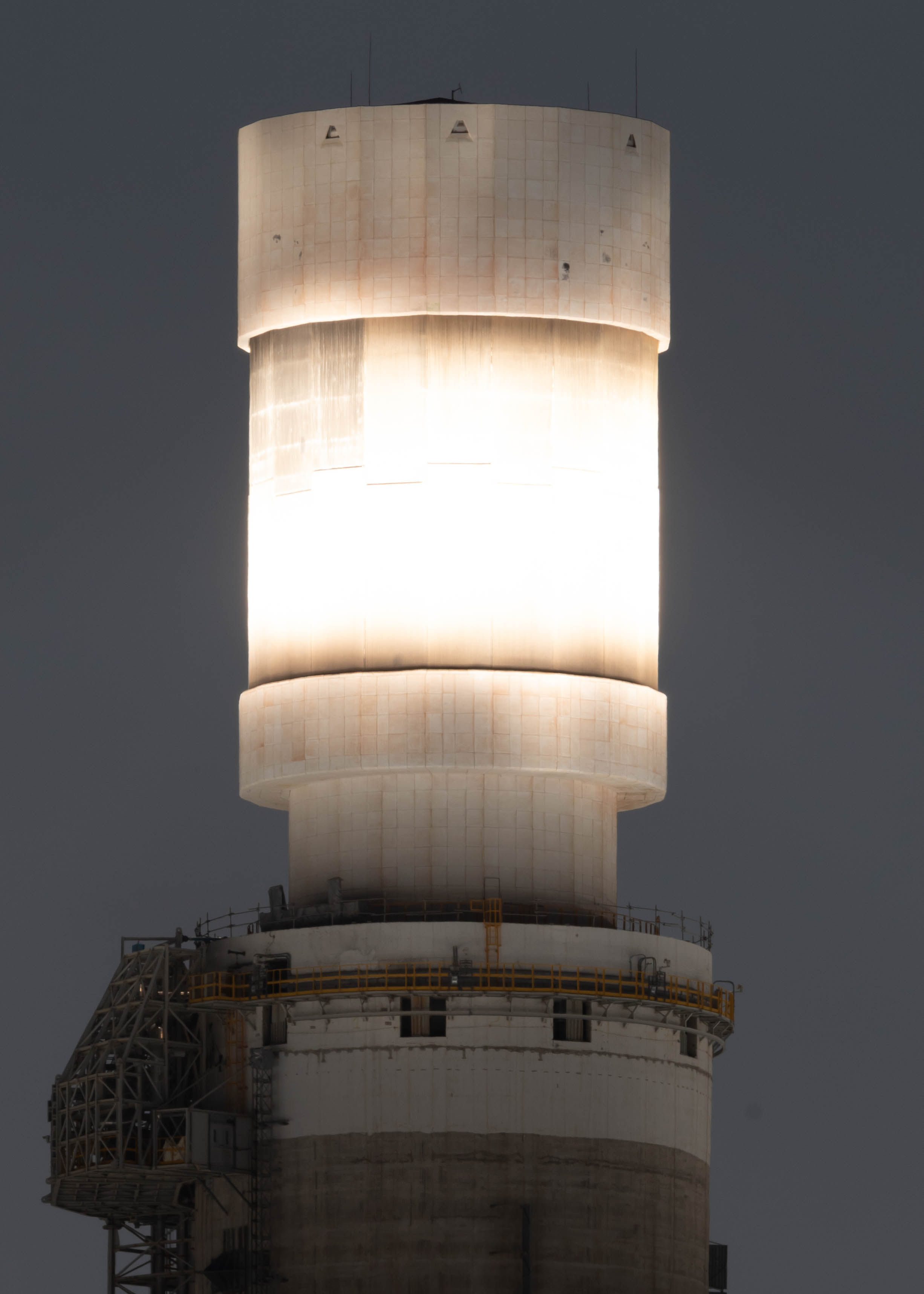 Ashalim power station is a solar power station in the Negev desert near the kibbutz of Ashalim